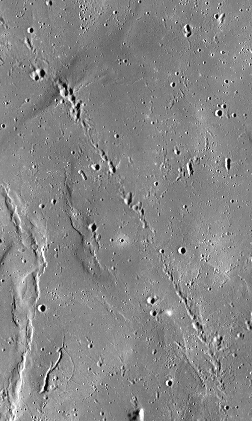 Chain of secondary craters of lunar crater Eratosthenes. The chain is located in southern Mare Imbrium; it's length is about 100 km. Center of the image is about 170 km from the rim of Eratosthenes. Mosaic of photos by Lunar Reconnaissance Orbiter, made with Wide Angle Camera. Image size is 100×60 km; north is up.